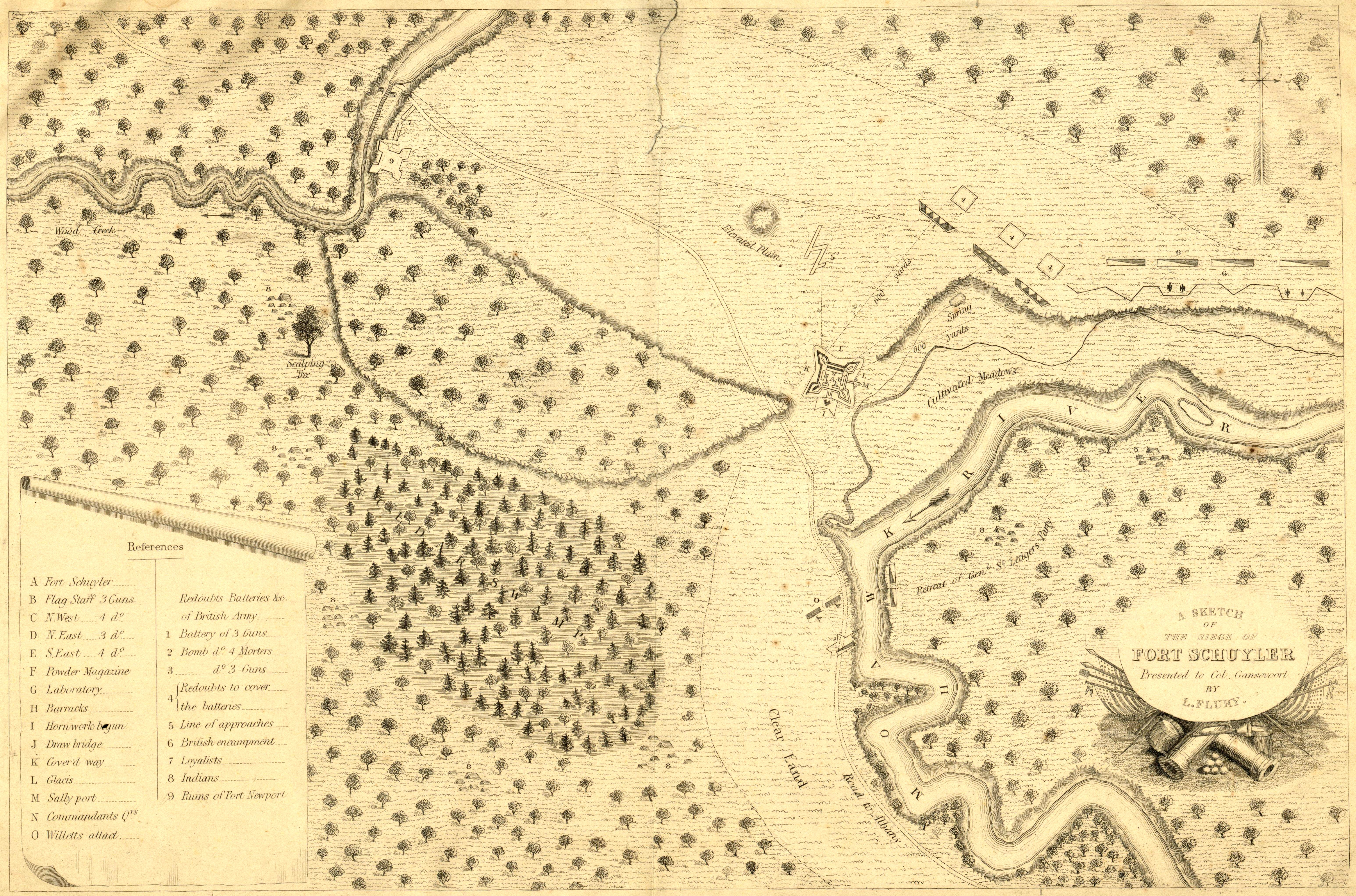 Caption: Sketch of the siege of Fort Schuyler, Presented to Col. Gansevoort by L. Flury This map depicts the positions and movements at the 1777 Siege of Fort Stanwix (also known as Fort Schuyler). The map has had its edges cropped, and the image has been contrast-adjusted.